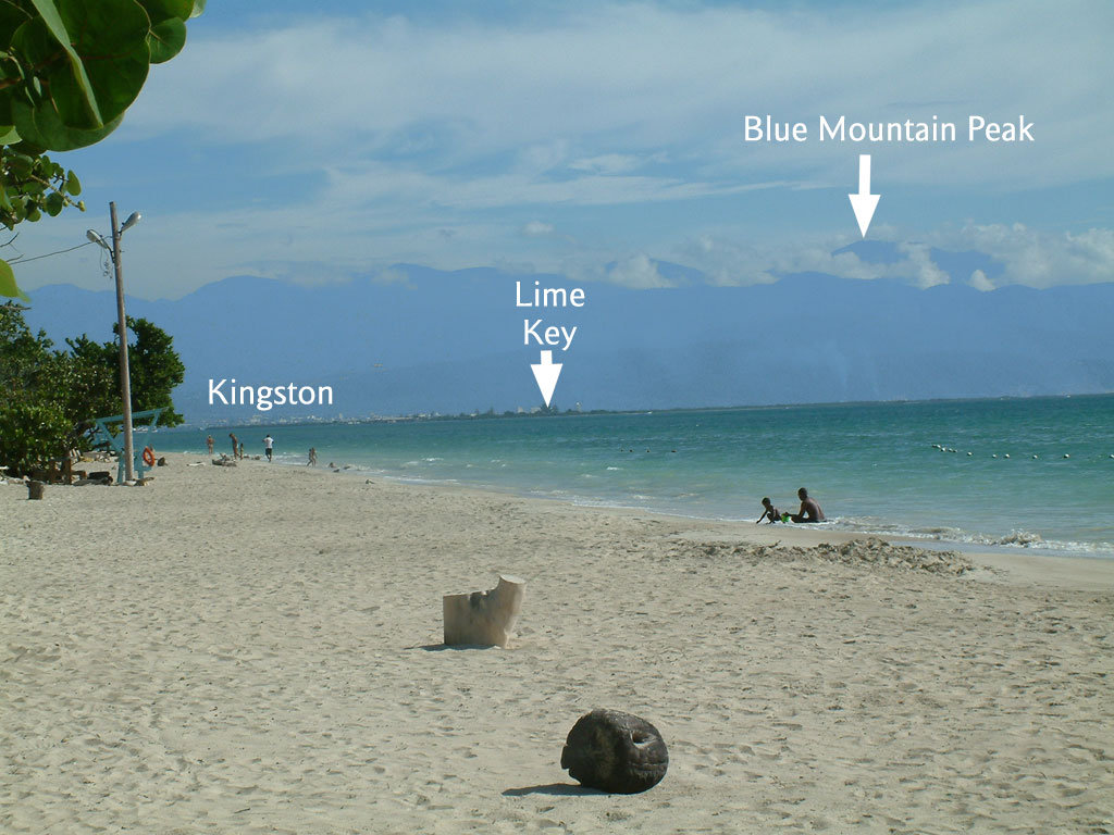 Hellshire Beach, Jamaica. photo by User:Op. Deo November 27,2005 looking east along beach with the Blue Mountain Range, Kingston and Lime Key visible in the distance.